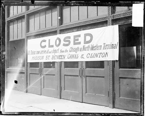 Wells_Street Station closed. Photo published June 6, 1911 in the Chicago Daily News, showing a sign on the old Wells Street Station directing passengers to the new Chicago and North Western Terminal.